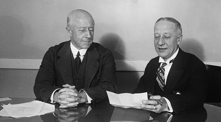 Al Smith call on Secretary of Navy. Former Governor Alfred E. Smith called on the Secretary of the Navy Charles Francis Adams today in Washington to ask for the help of Navy engineers in the construction of a mooring mast and landing platform for transatlantic dirigibles of the 1,100 foot tower of the Empire State Building, now under construction in New York. The former Governor is a Director in Empire State, Inc.